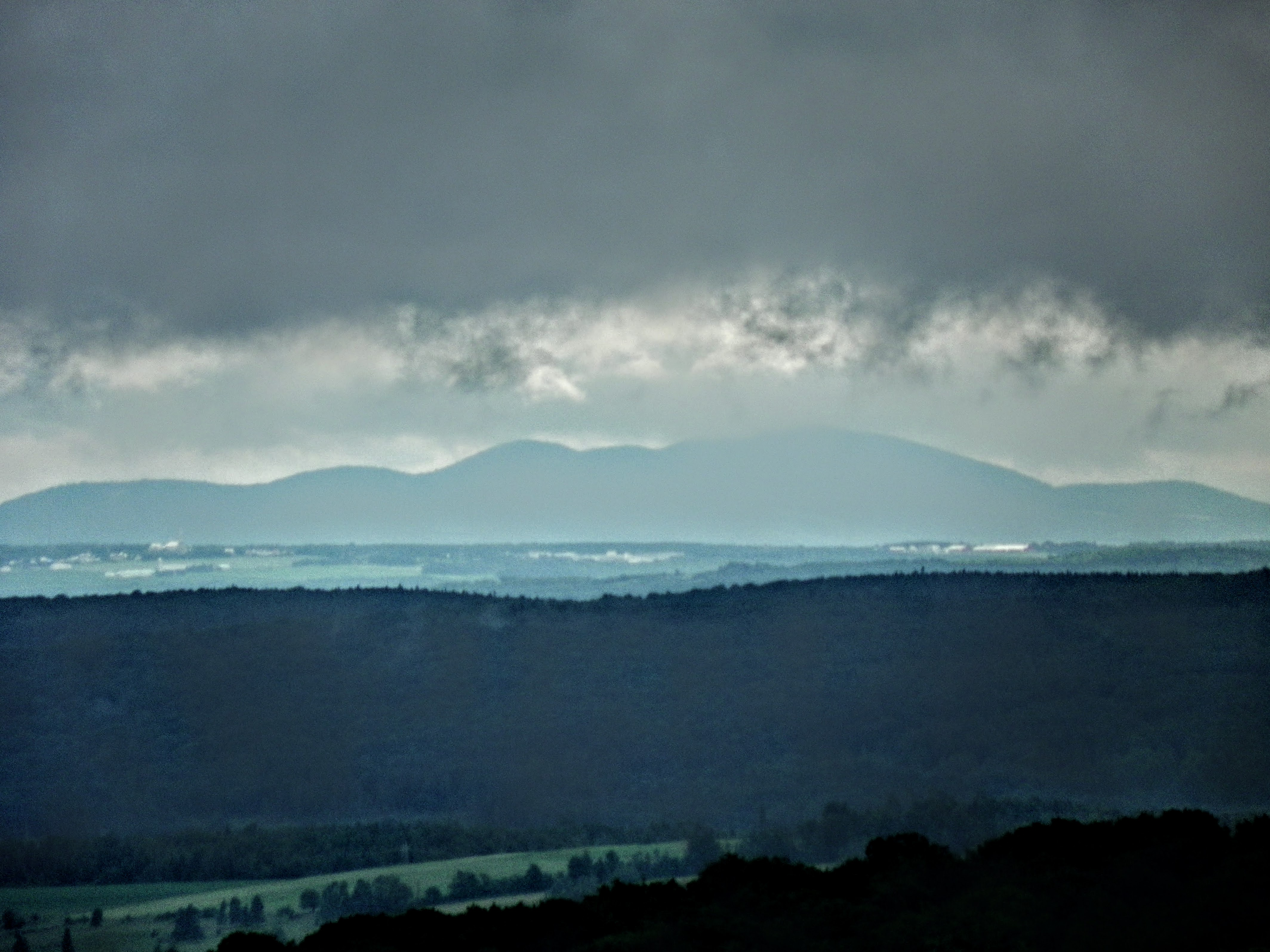 View towards Grand Morne near Adstock and Sacré-Cœur-de-Jésus from Saint-Frédéric, Québec.